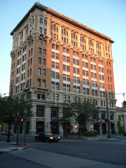 The Security Mutual Life building in downtown Binghamton, a Beaux-Arts landmark of the city. Constructed in 1905, it is 11 stories tall and still houses it's namesake company, Security Mutual Life Insurance Company of New York.